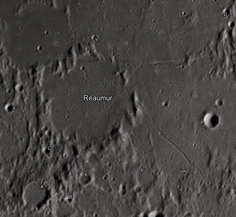 Reaumur lunar crater as seen from Earth with satellite craters labeled